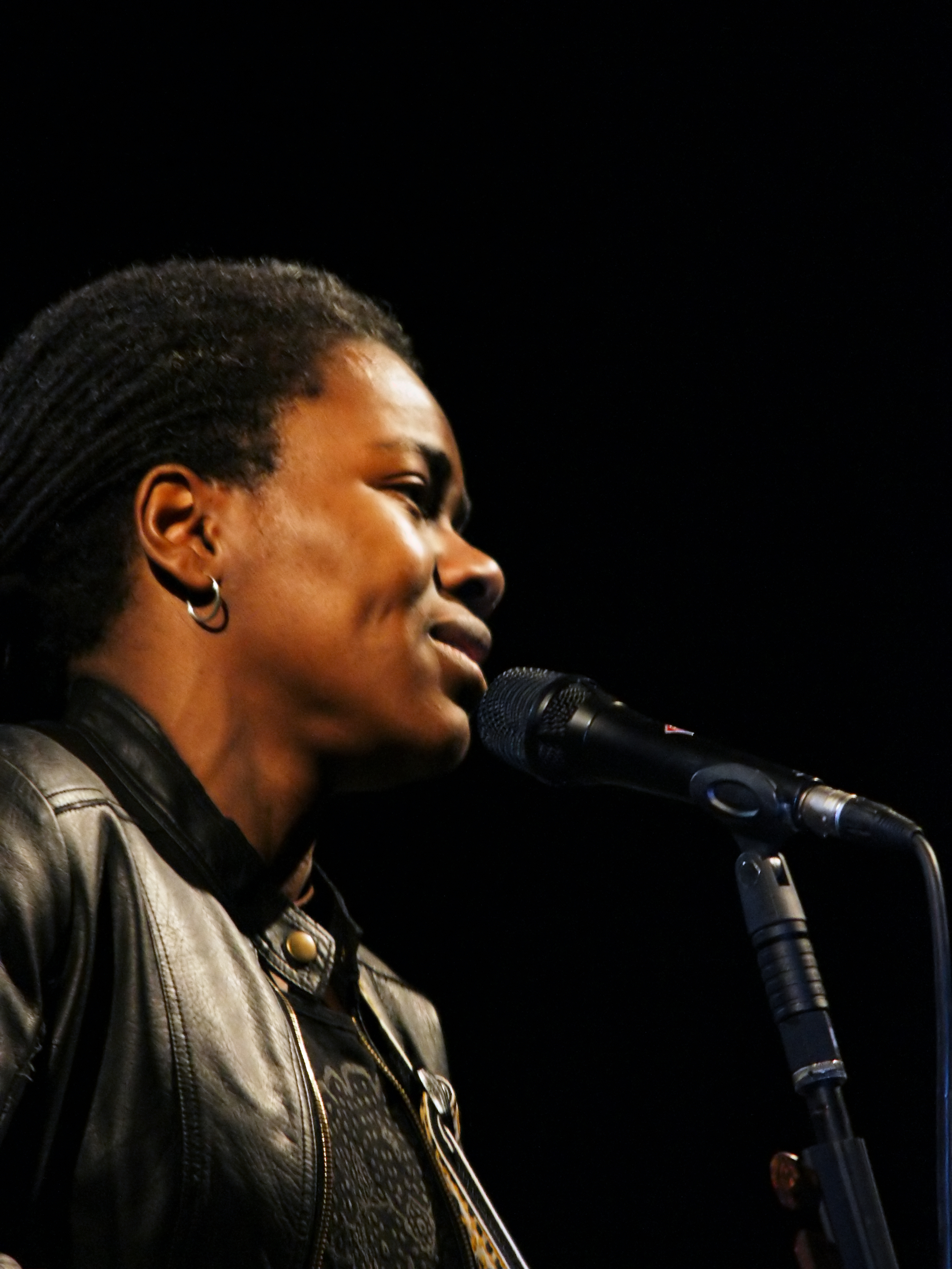 Tracy Chapman at the 2009 Cactus Festival in Bruges, Belgium.